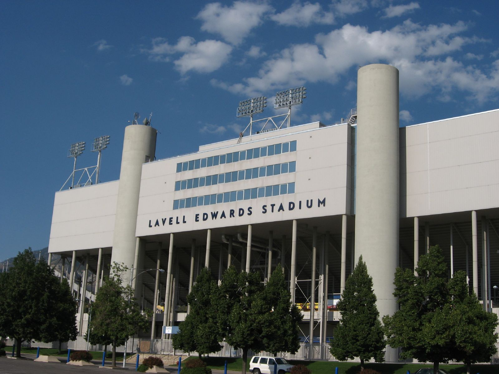 Exterior of Lavell Edwards Stadium at BYU